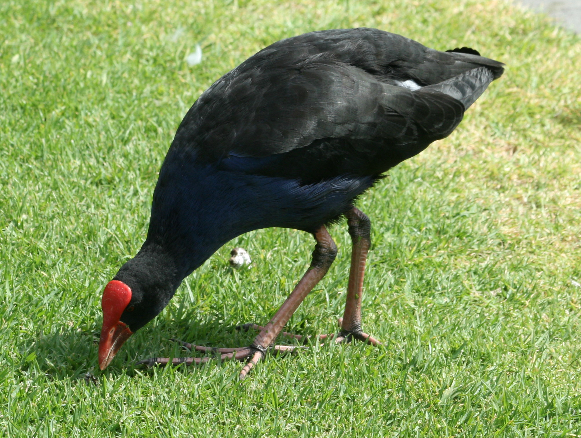 Purple Swamphen (Porphyrio porphyrio) - Melbourne, Australia